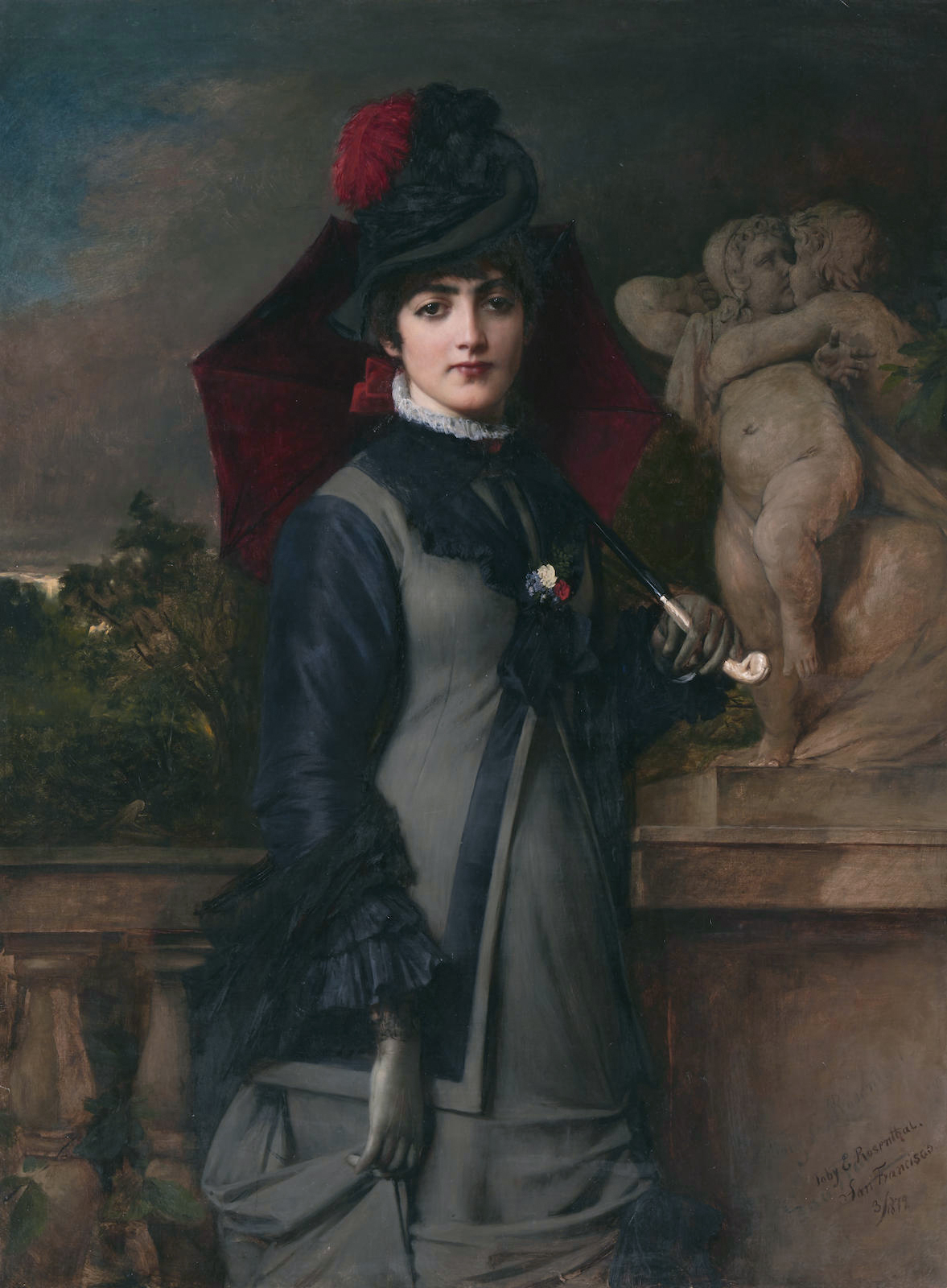 A young woman with a parasol oil on canvas 137 x 100 cm signed b.r.:Toby E. Rosenthal / San Francisco / 3/1879